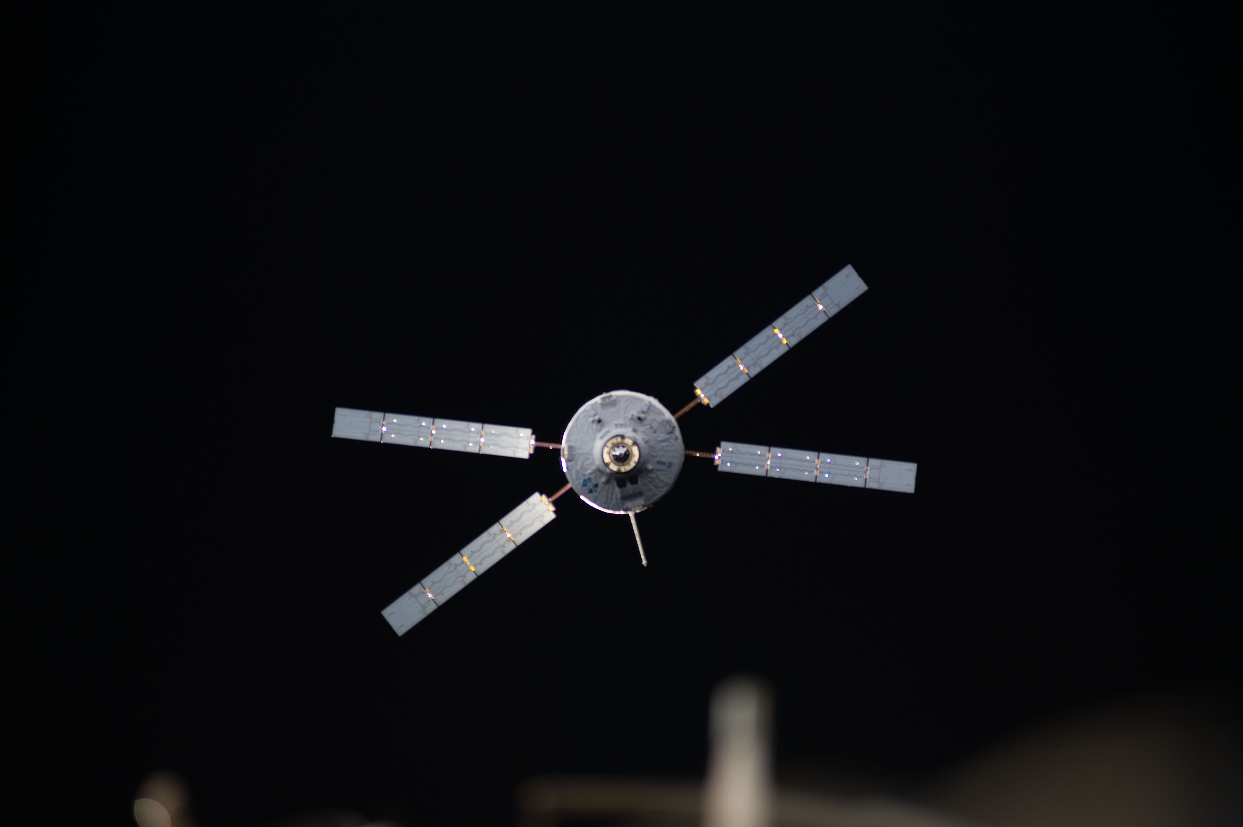 Surrounded by the blackness of space, the European Space Agency's "Johannes Kepler" Automated Transfer Vehicle-2 (ATV-2) approaches the International Space Station. Docking of the two spacecraft occurred at 10:59 a.m. (EST) on Feb. 24, 2011.